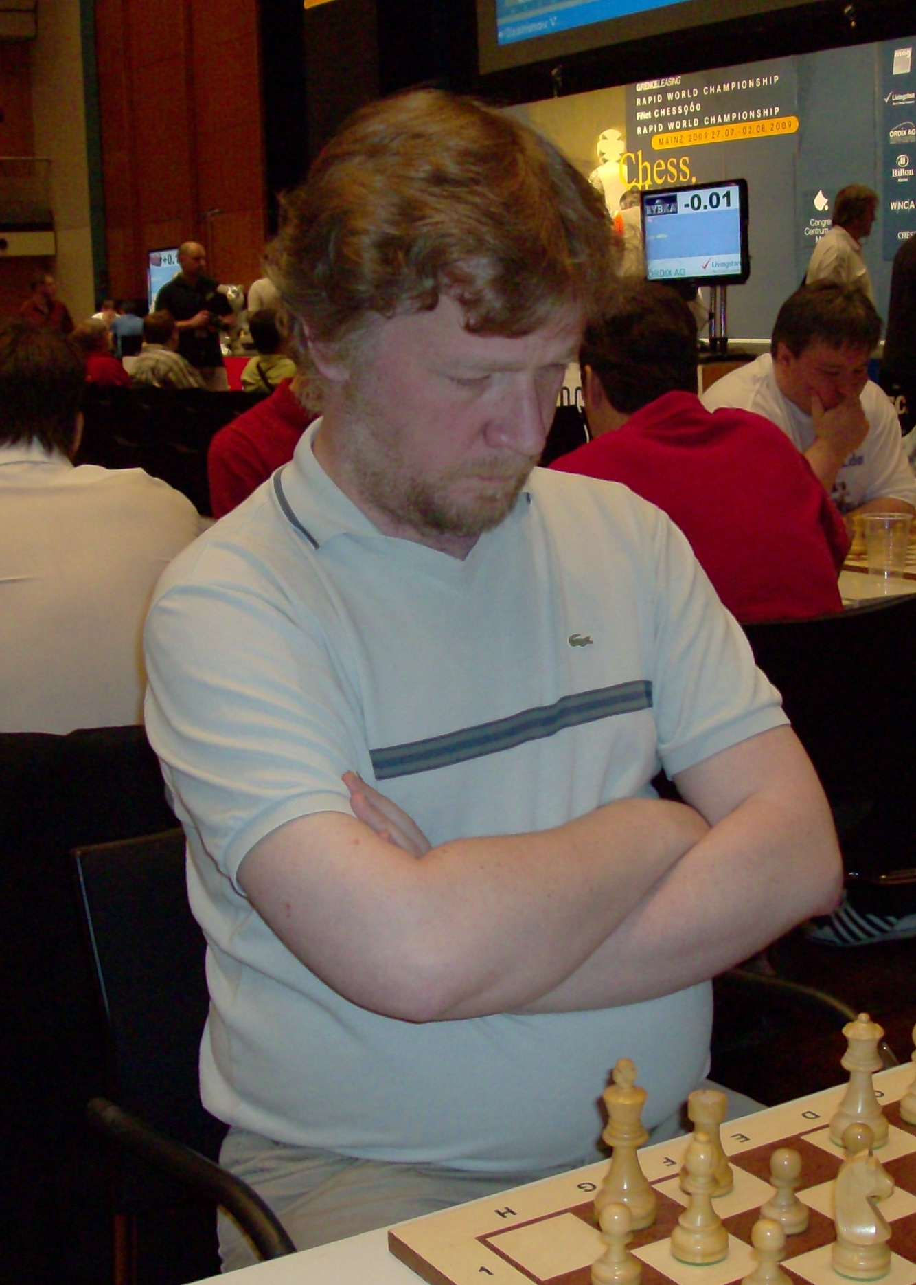 Alexander Khalifman, chess grandmaster from Russia